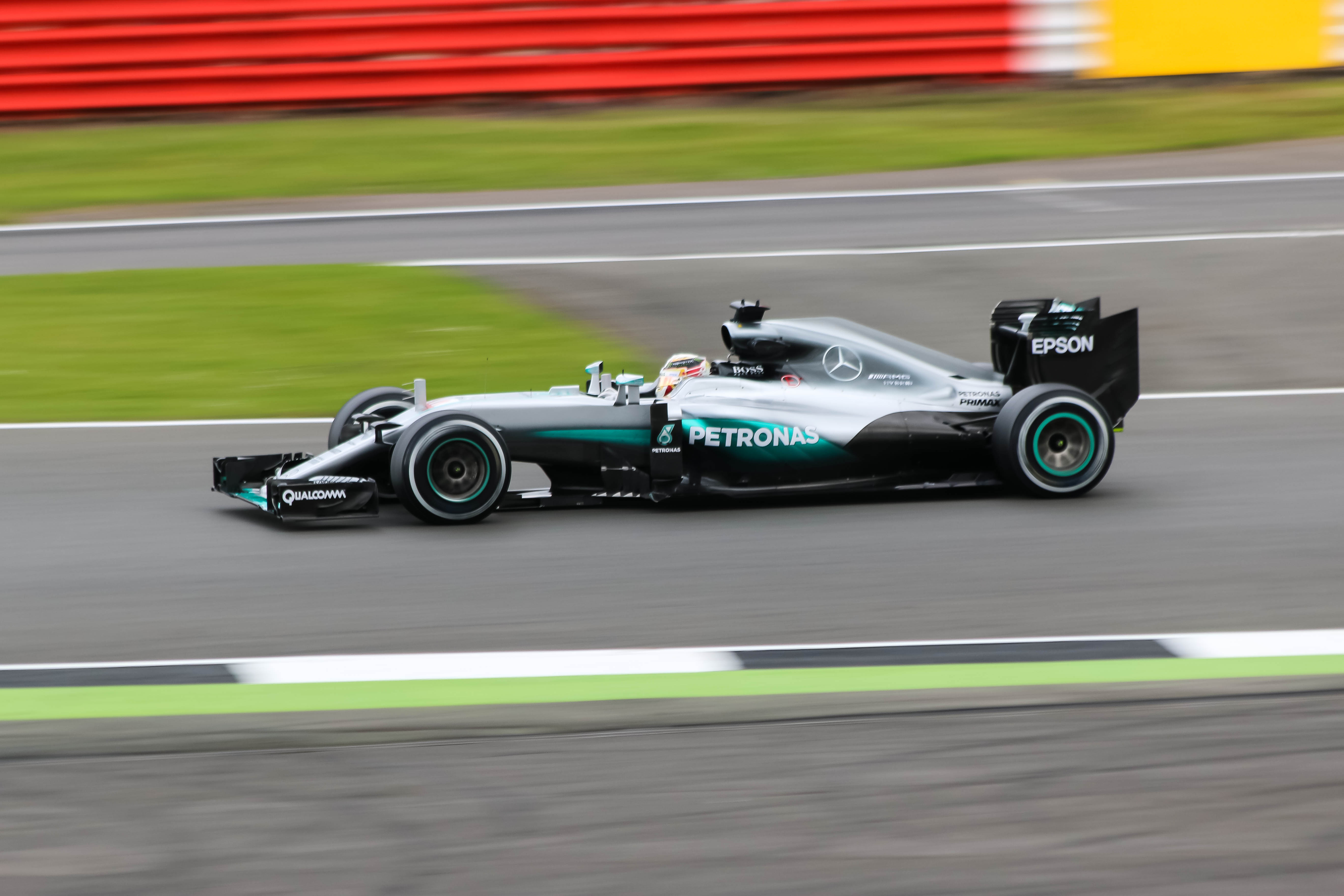 Lewis Hamilton in the Mercedes F1 W07 Hybrid, 2016 British GP